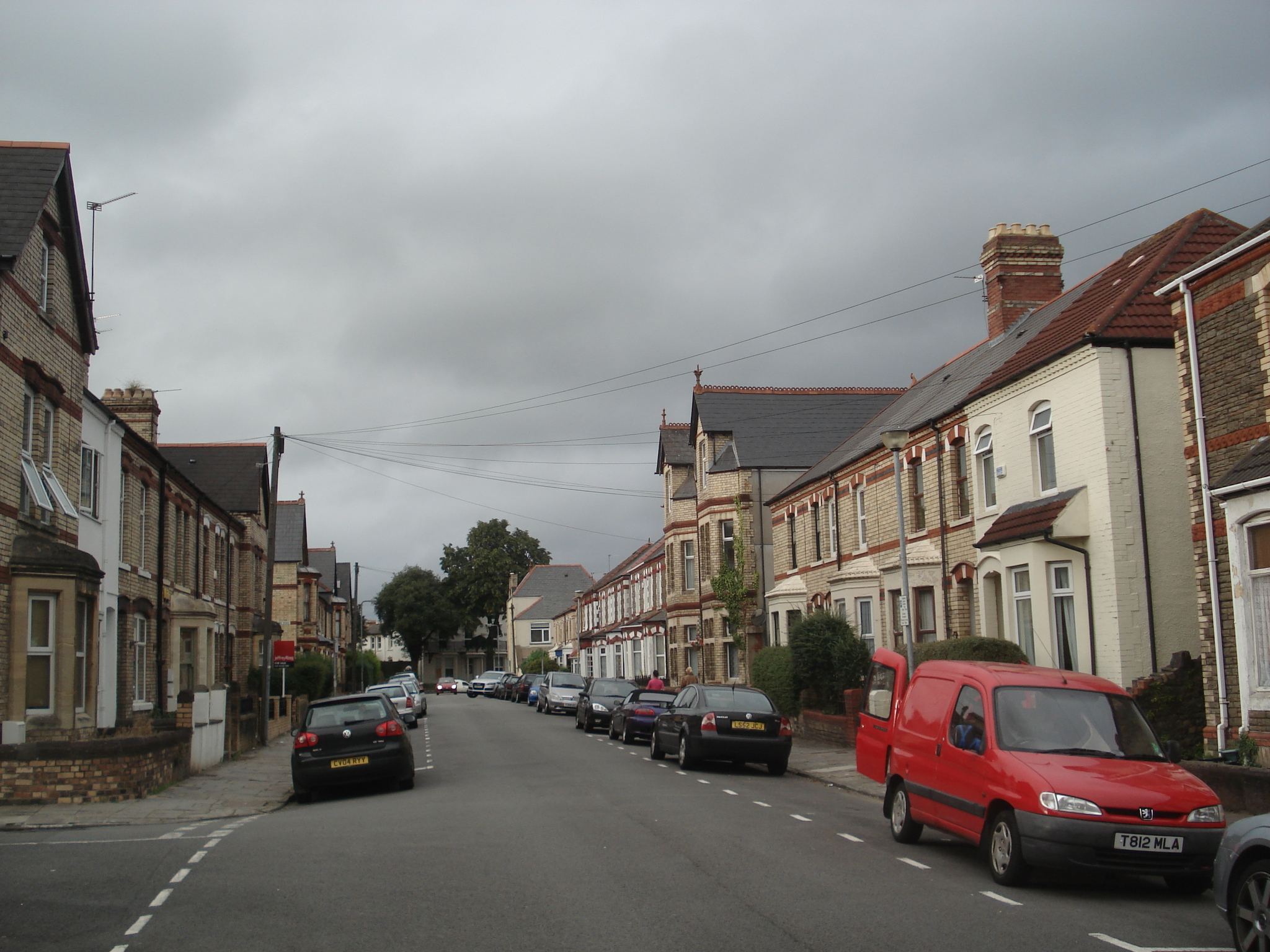 Rectory Road